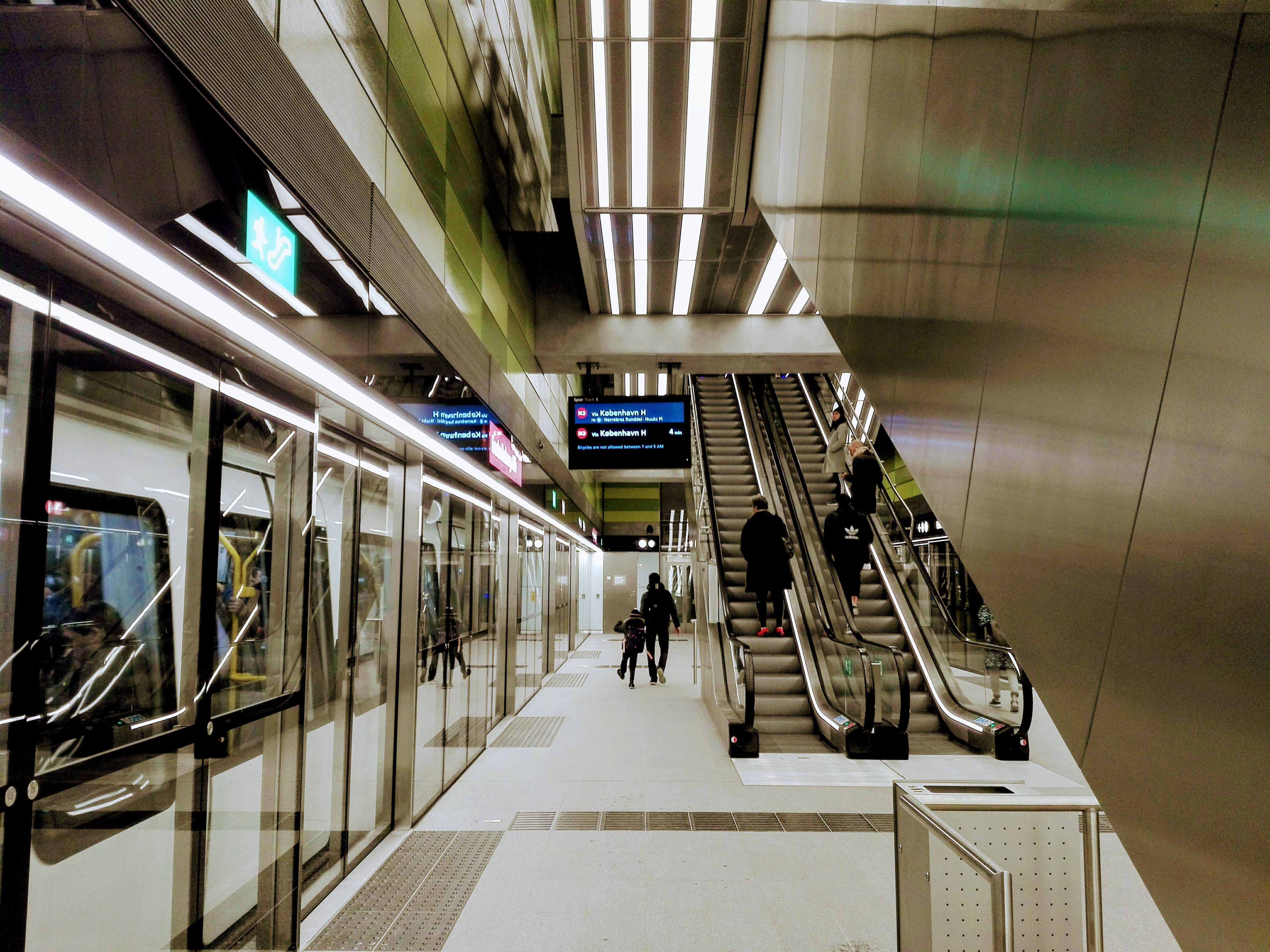 Platform level